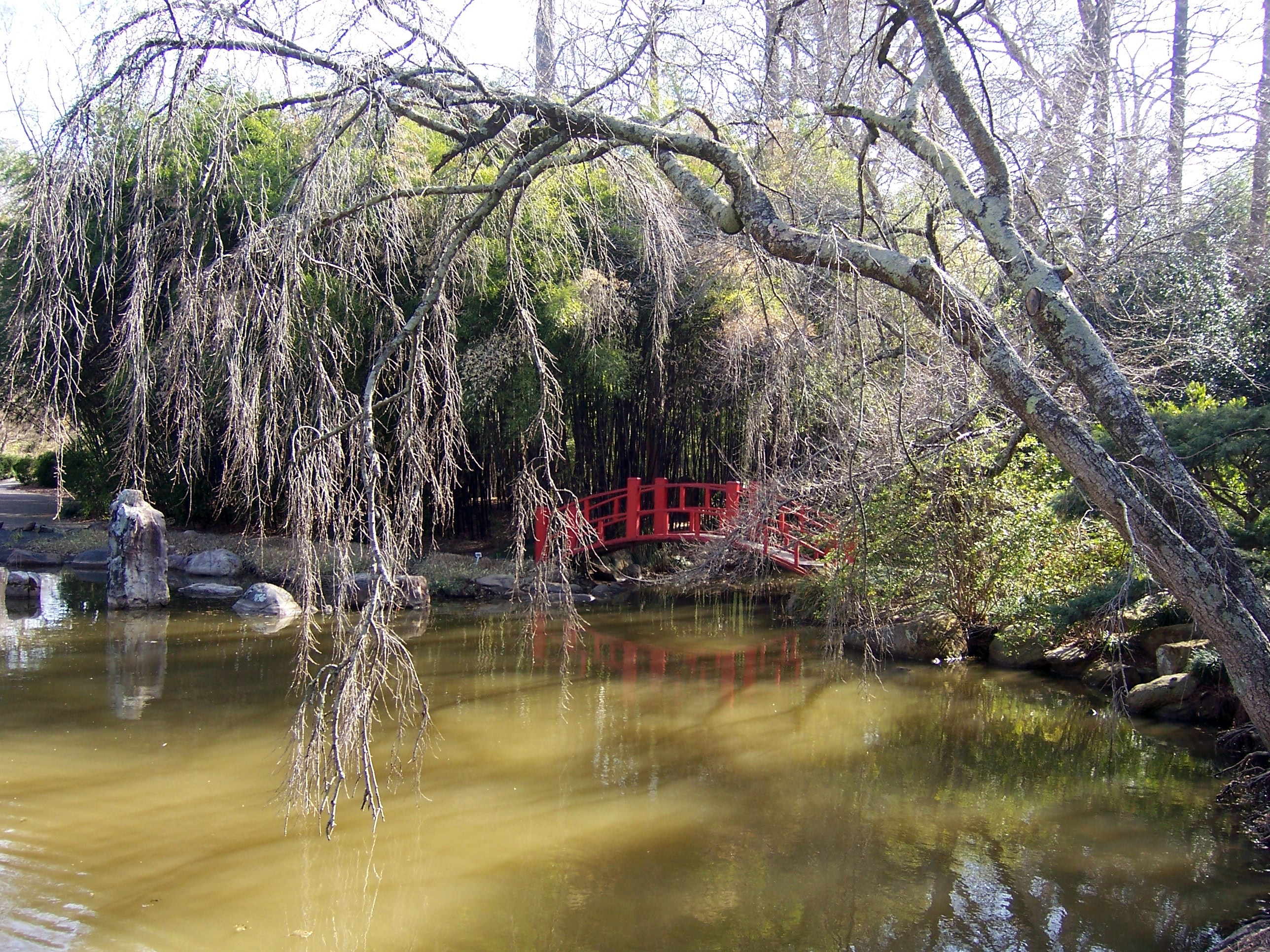 Long Life Lake within the 7.5 acre Japanese Garden at the Birmingham Botanical Gardens in Birmingham, Alabama USA.